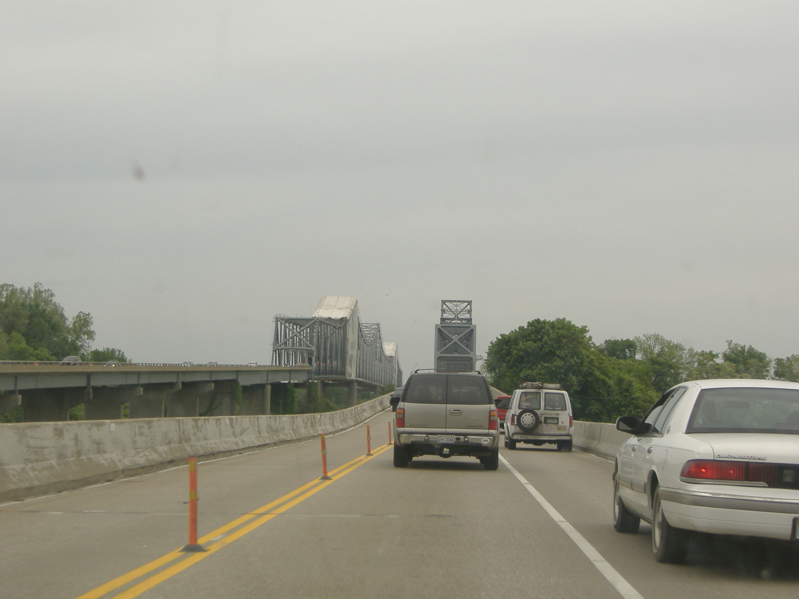 Bi-State Vietnam Gold Star Bridges, which connects Henderson with Evansville